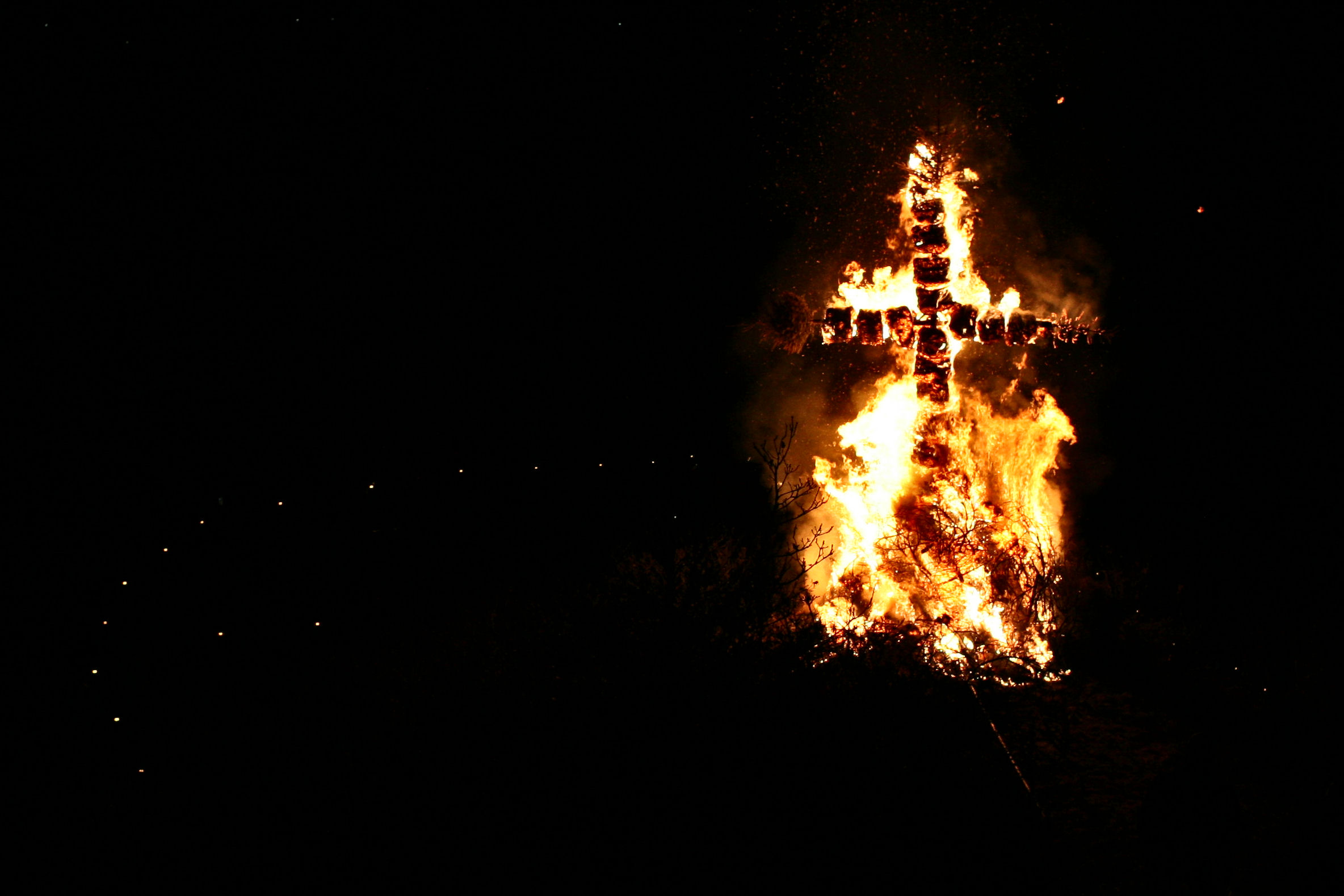 Burning of traditional fire called "Buergbrennen" in Bivels, Luxembourg. See preperation of the fire here: Image:Buergbrennen 01 Bivels Luxembourg.jpg